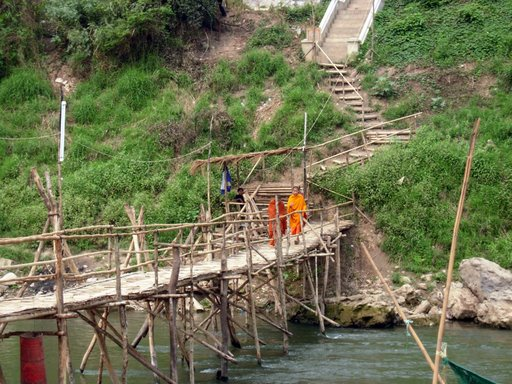 bamboo bridge over the Nam Khan river in Luang Prabang, Lao.